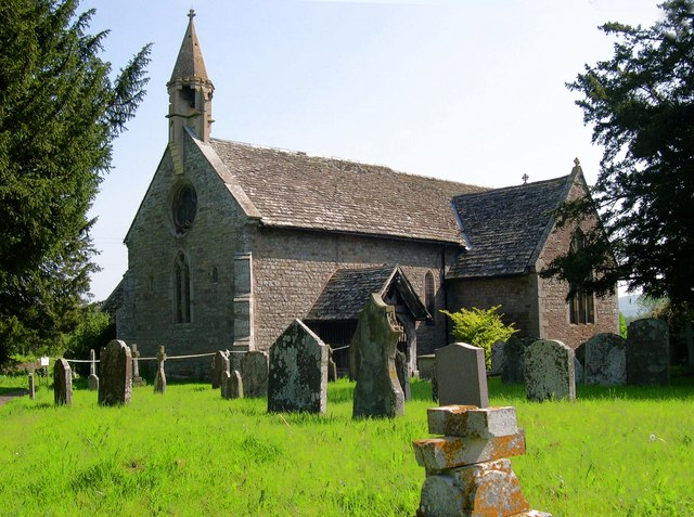 St Lawrence, Bishopstone Next to Bishopstone Court. On a Roman site. The 14th century porch 'imported' from the old church at Yazor.